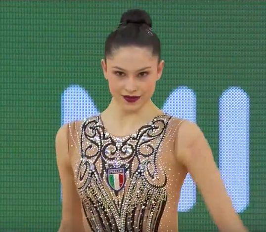 Milena Baldassarri at 2018 European Championships in Guadalajara